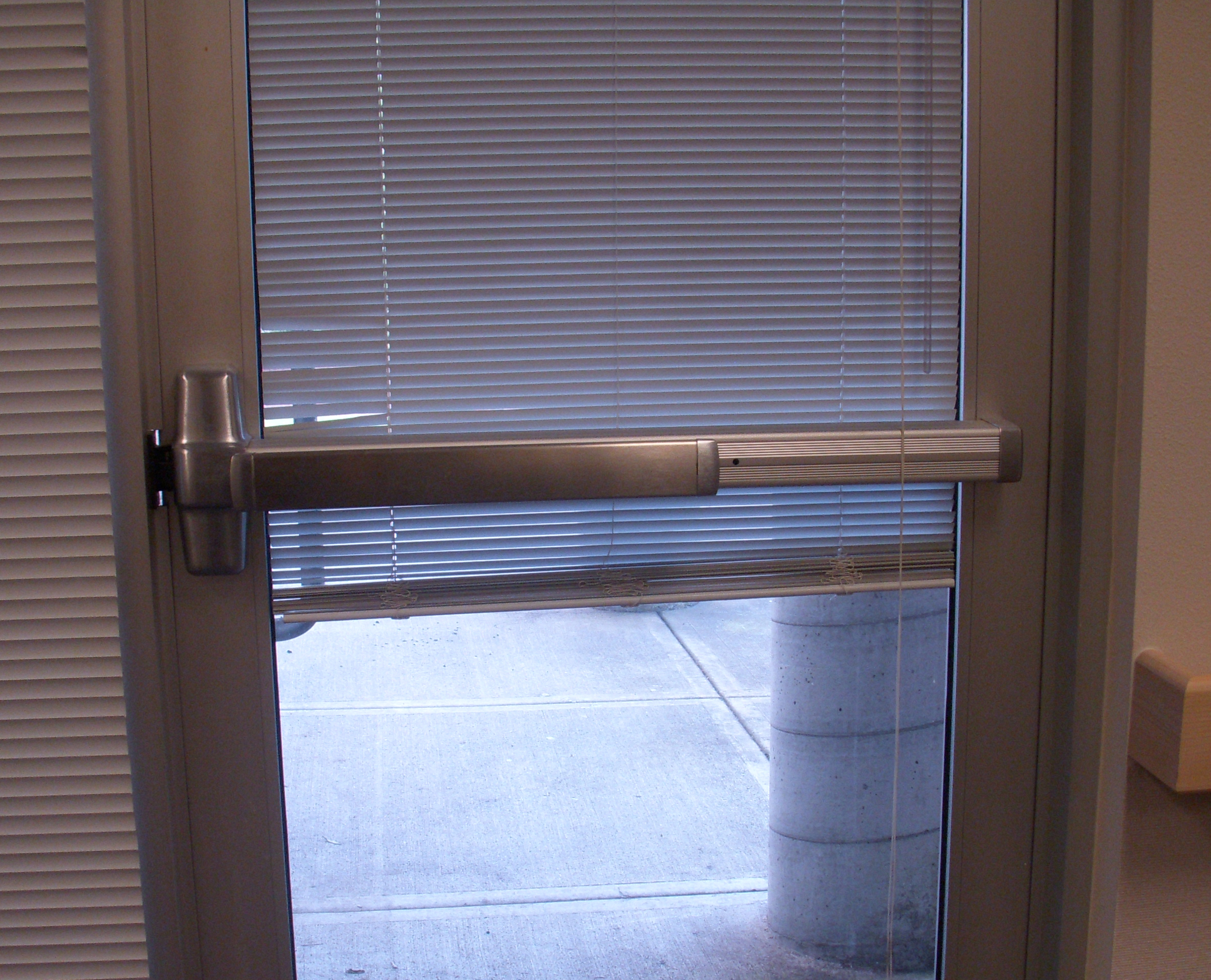 Typical "panic bar" hardware for emergency egress.